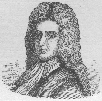 Engraving of Daniel Defoe